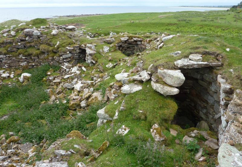 Cinn Trolla Broch, Sutherland, Scotland